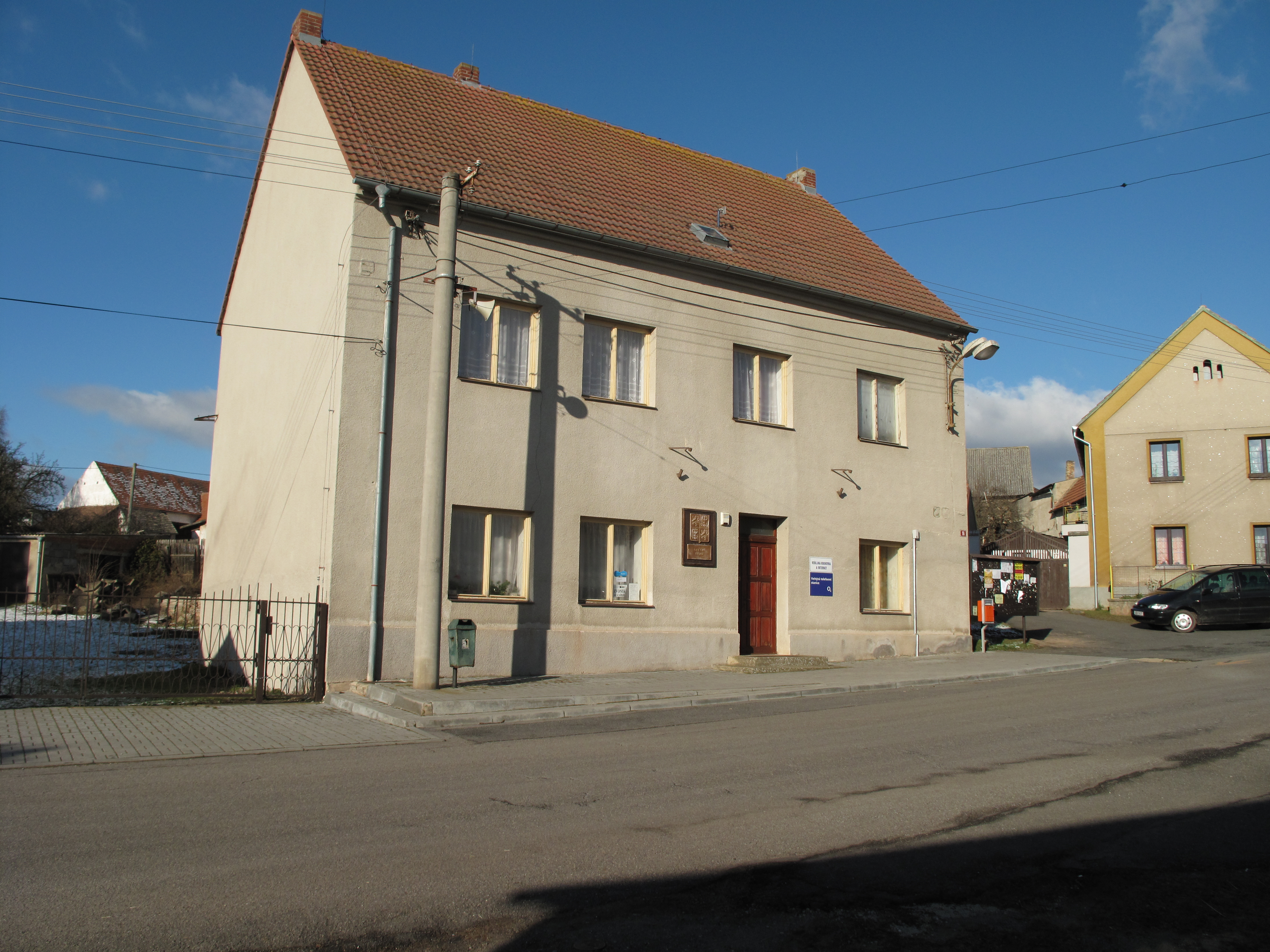 Municipal office in Jedomělice village, Kladno District, Czech Republic.